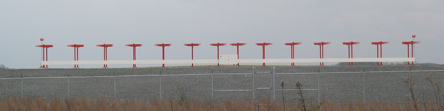 (Chad Snoke, LOC M39)